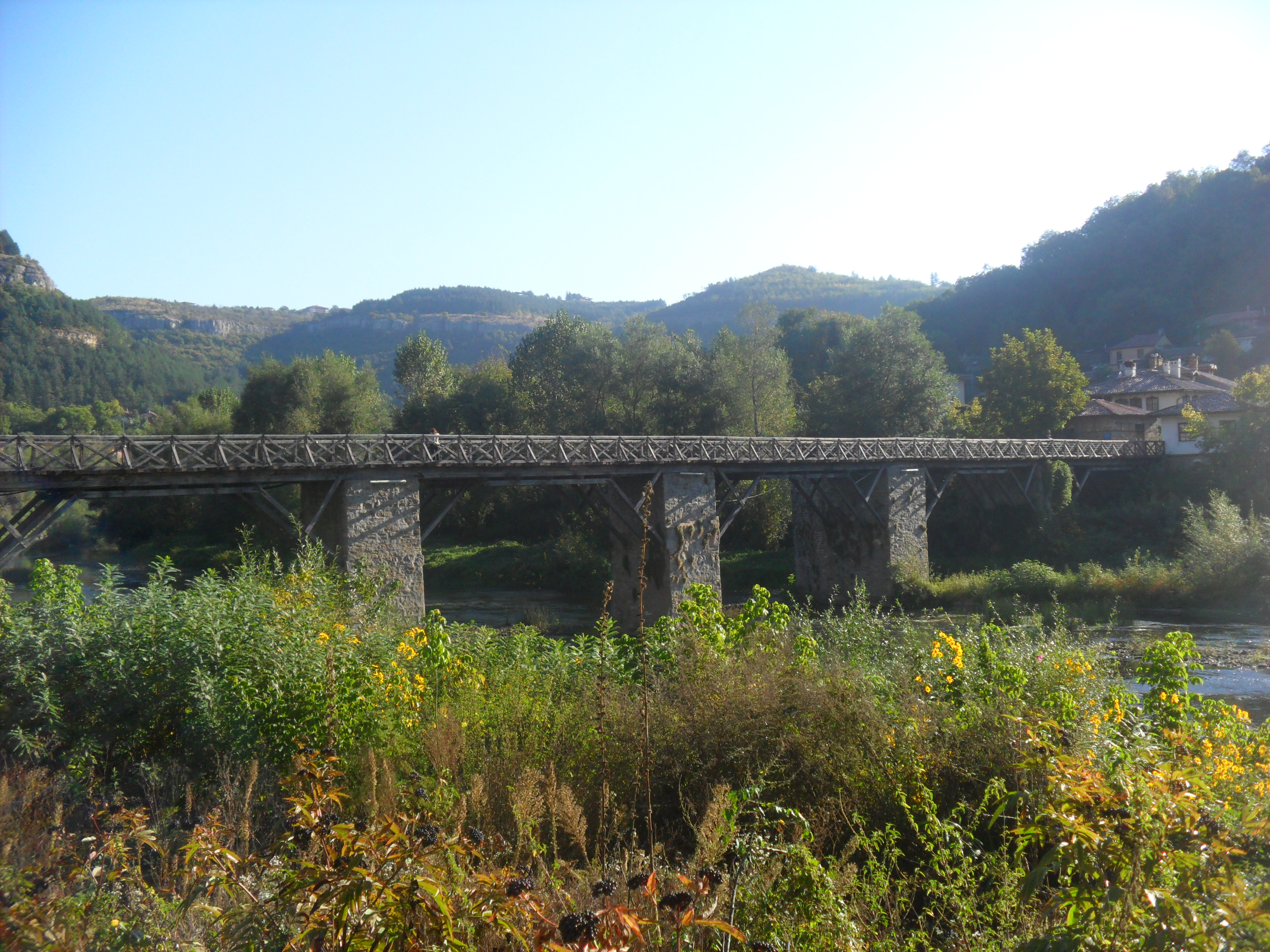 One of the oldest bridges in the town